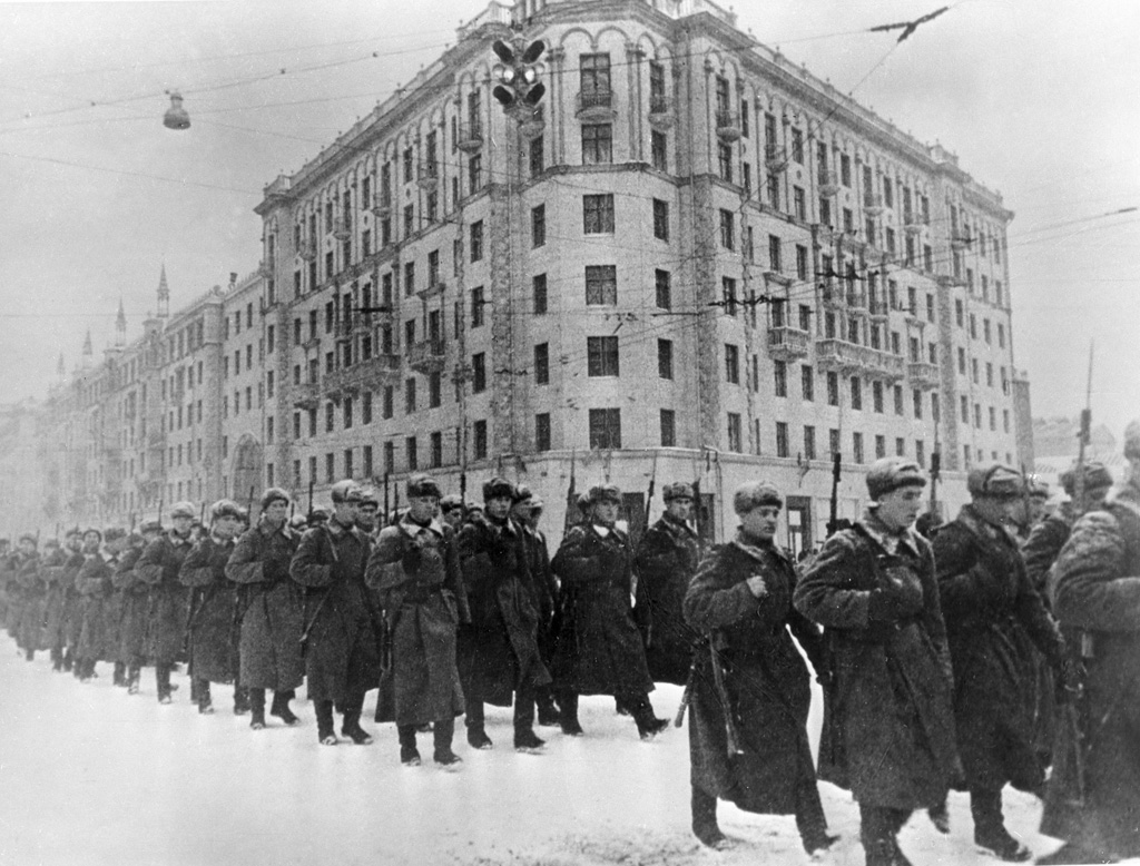 “Fresh forces going to the front”. Fresh forces going to the front from Moscow.